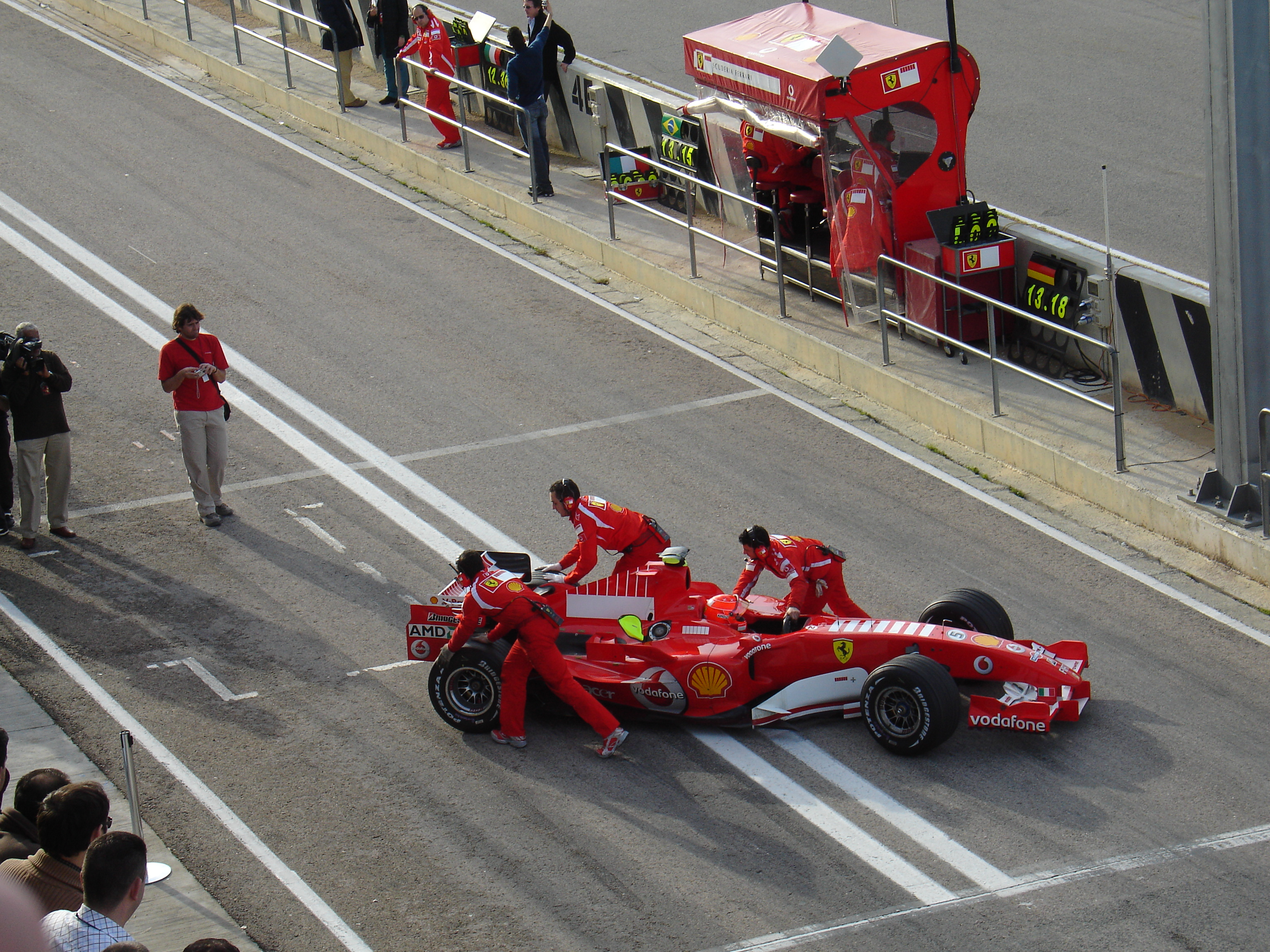 Michael Schumacher being introduced into Ferrari box at at Cheste Circuit (Valencia)